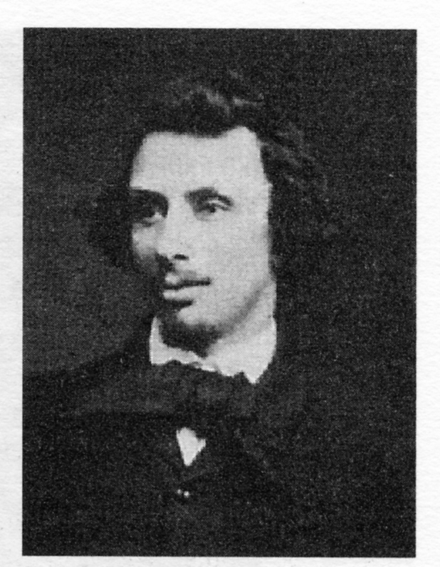 Samuel Orchart Beeton aged 29 in 1860, publisher and husband of Isabella Beeton